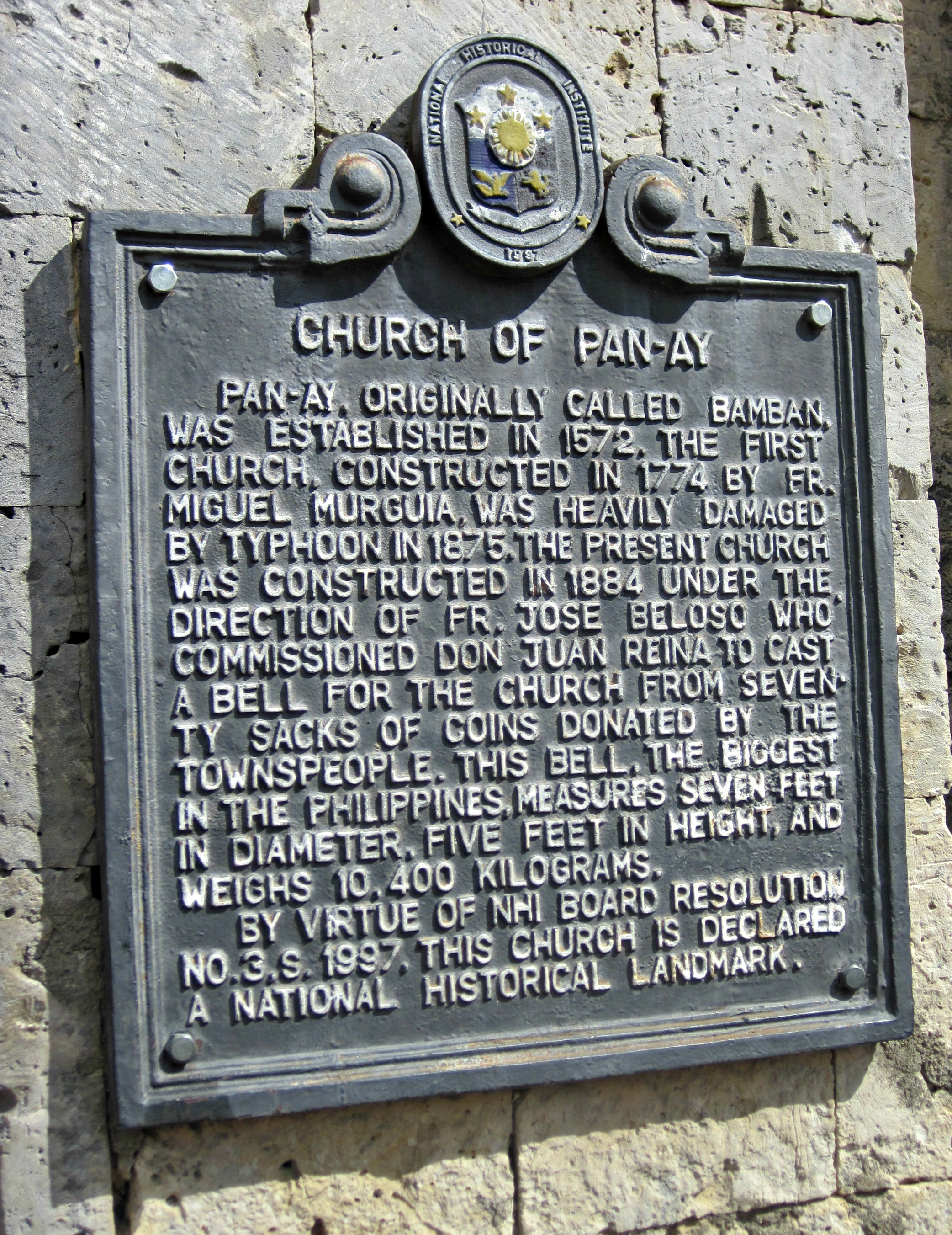 Church of Panay Historical Marker from the National Historical Commission of the Philippines installed in 1997